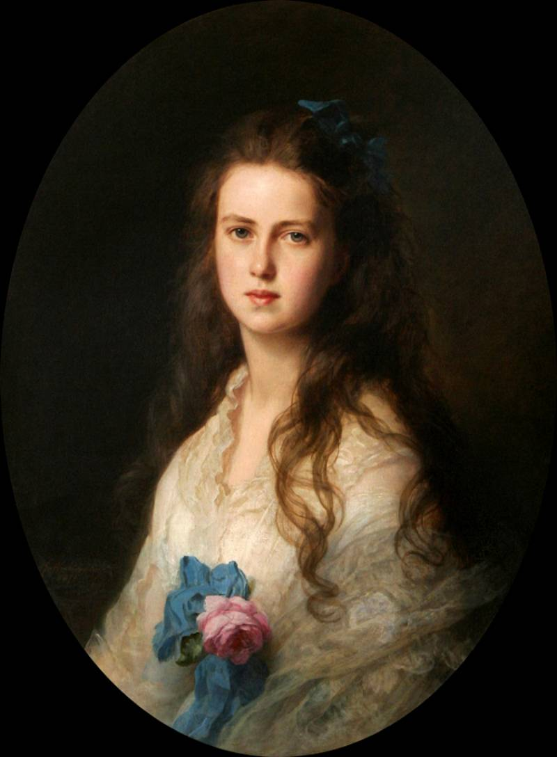 Grand Duchess Maria Alexandrovna of Russia (1853-1920, later Princess of Great Britain & Ireland, Duchess of Edinburgh, Fürstin von Sachsen-Coburg und Gotha)